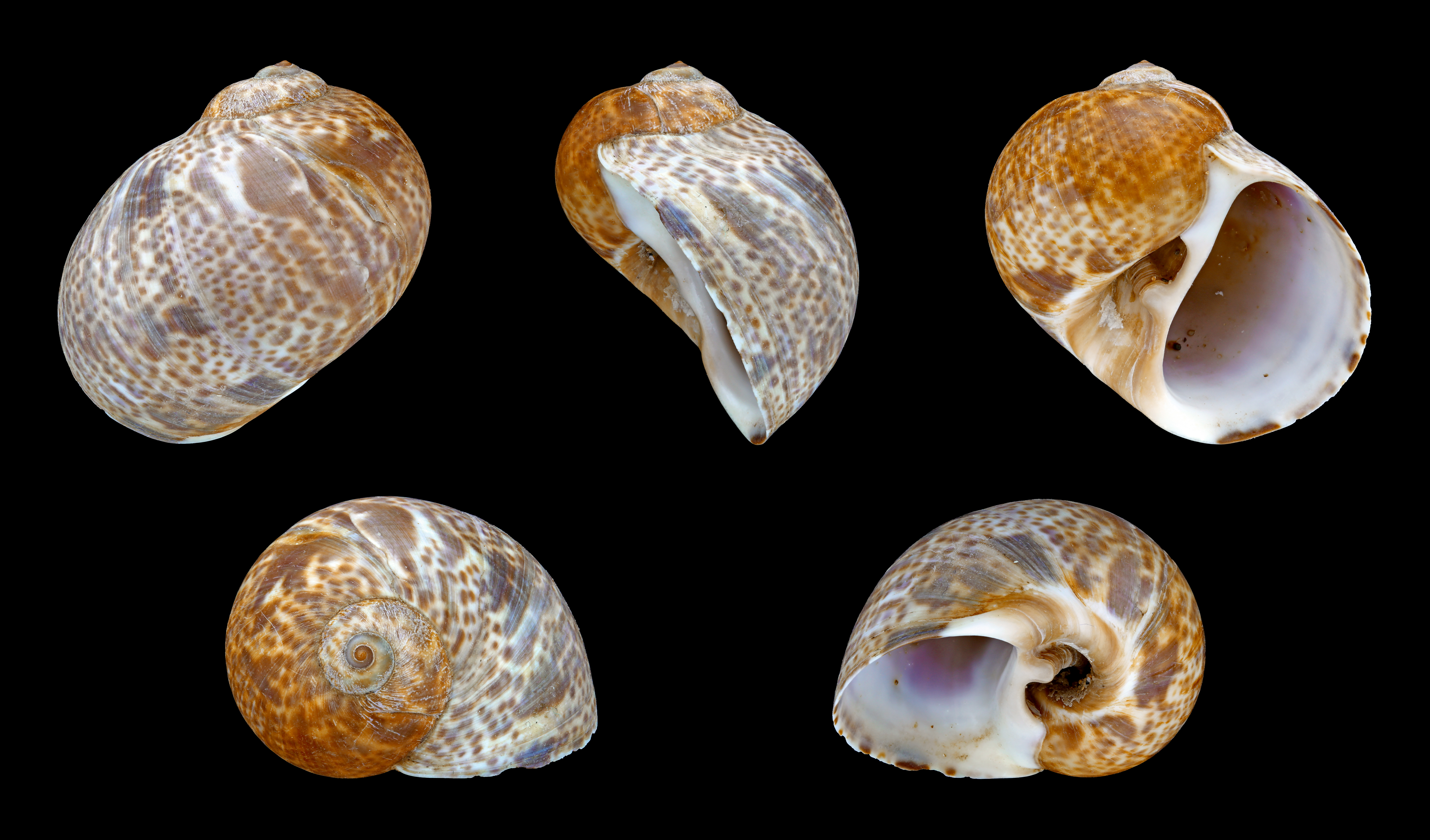 Hebrew Moon Snail; diameter 3.1 cm; Originating from Port Leucate, France 42°54′3.57″N 3°2′23.21″E / 42.9009917°N 3.0397806°E; Shell of own collection, therefore not geocoded. Dorsal, lateral (right side), ventral, back, and front view.